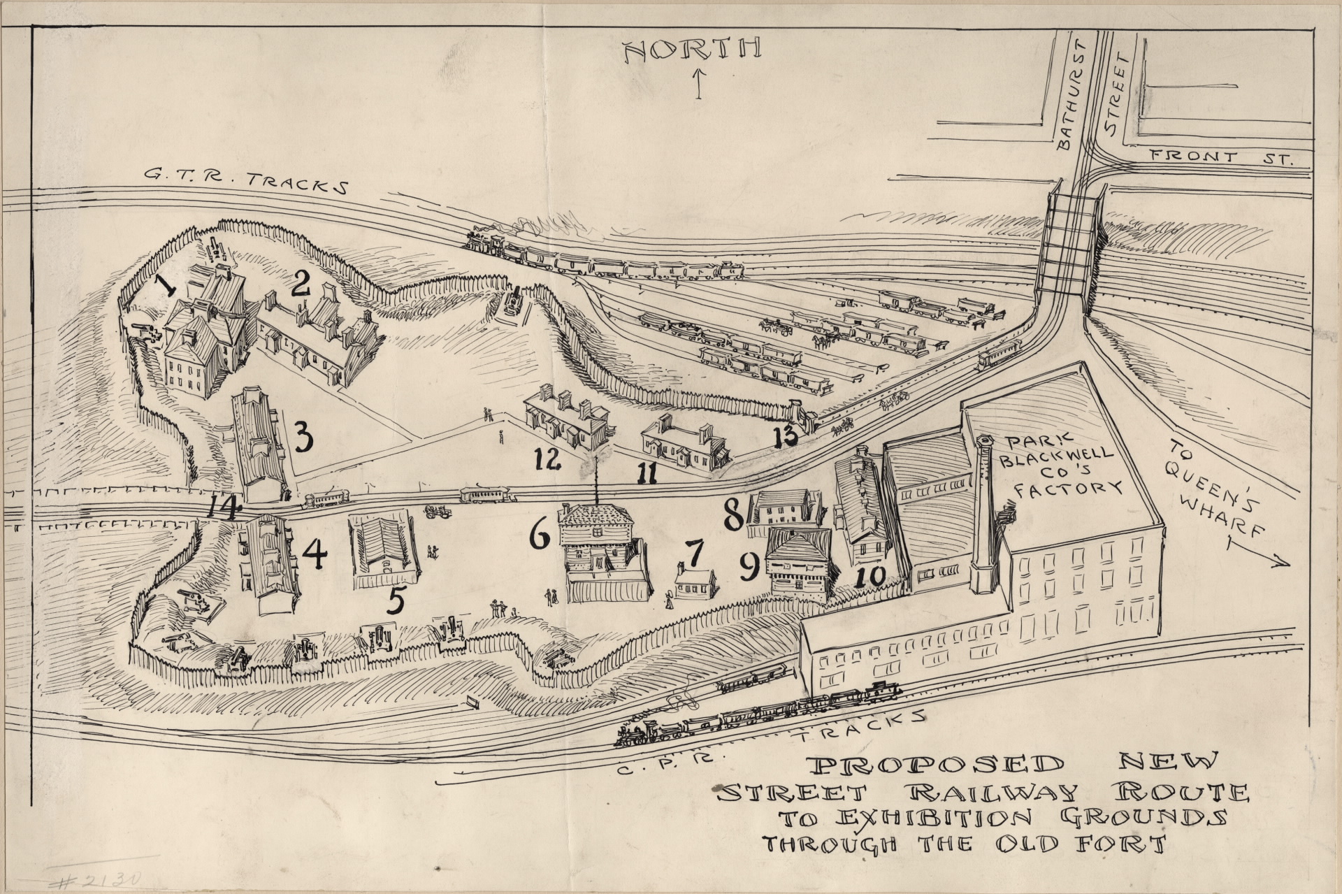 Proposed New Street Railway Route to Exhibition Grounds through the Old Fort. Toronto, Ontario.